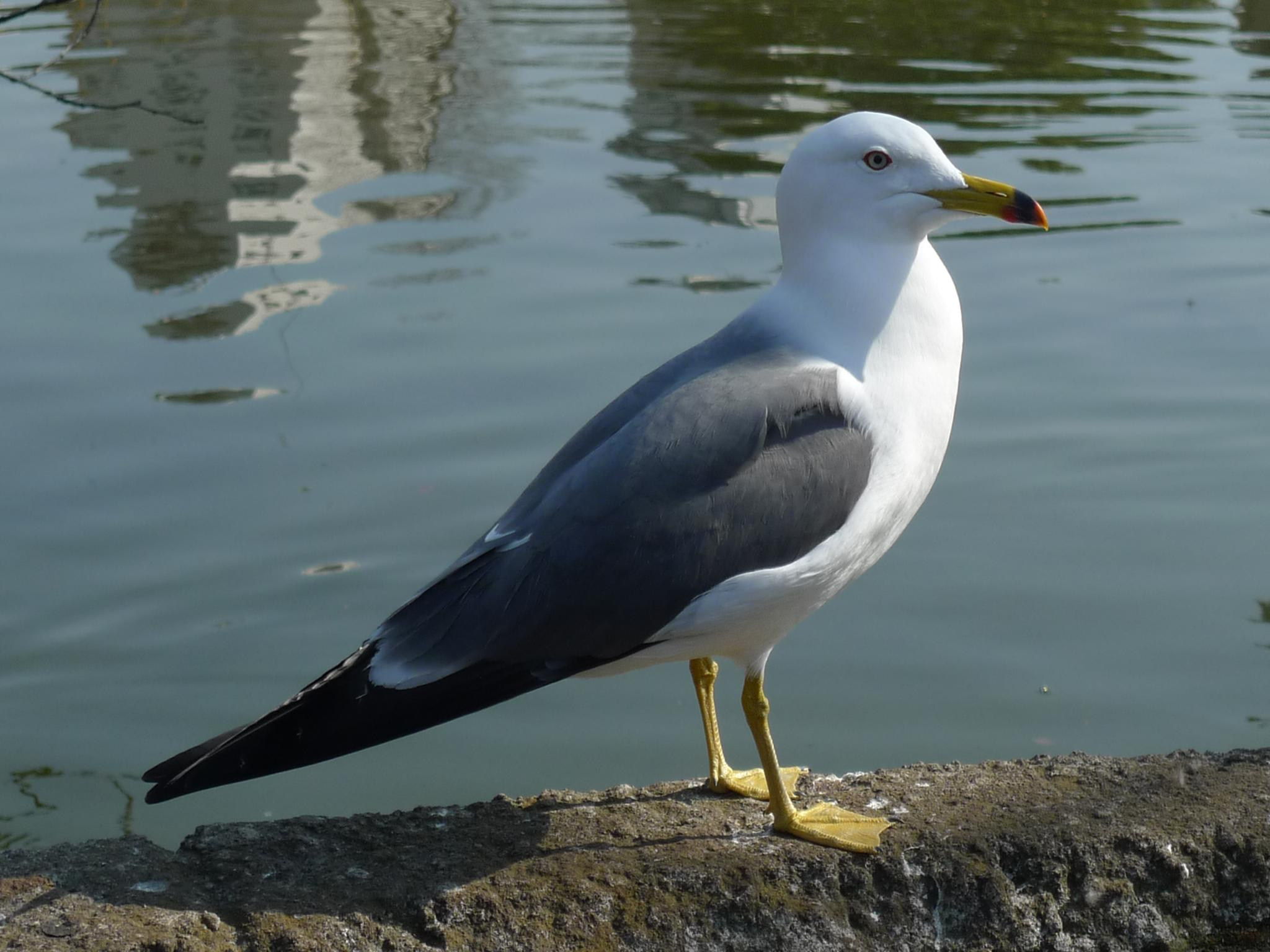 A Black-tailed Gull in Japan.